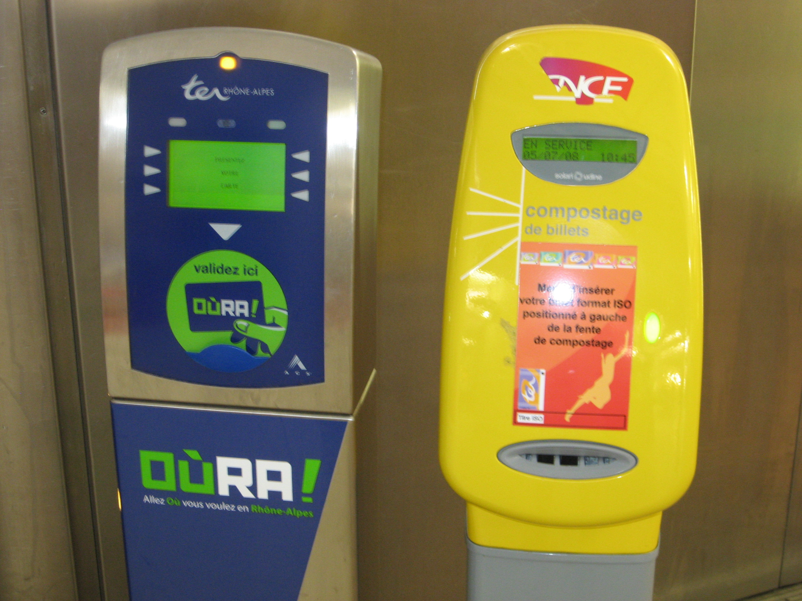 The Oùra validator next to the SNCF validator. The Oùra electronic card is used in the Rhônes-Alpes region of France